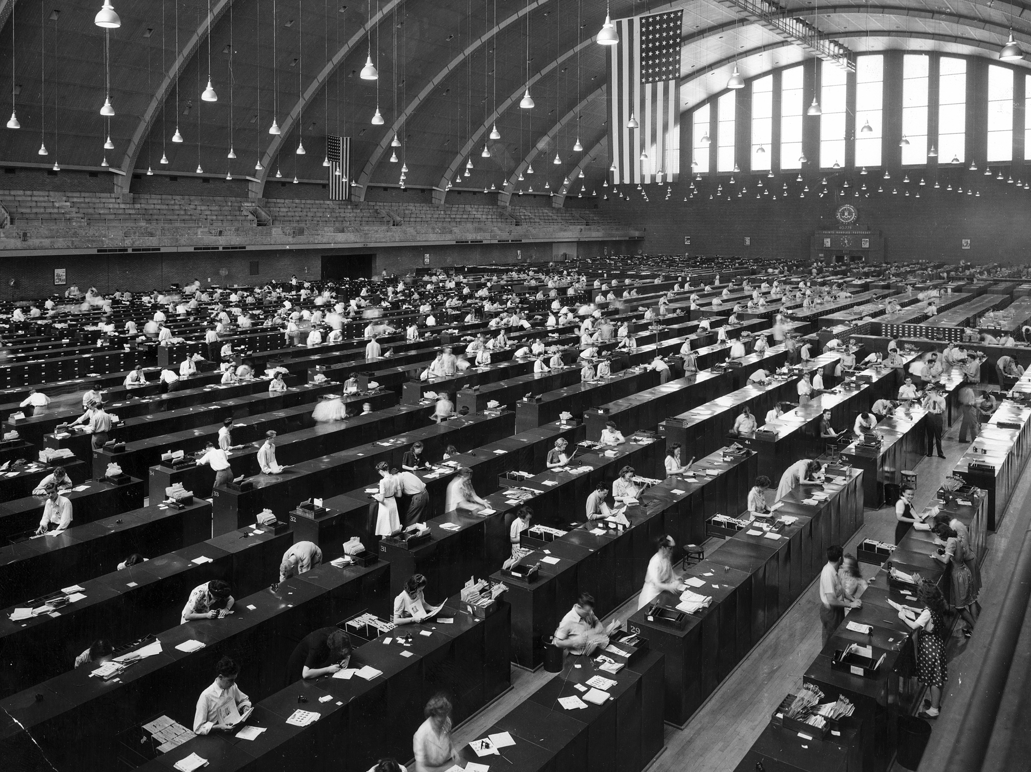 Fingerprinting at the federal armory during WWII — National Guard Amory, Fingerprinting Division, 92nd street, Washington, D.C.